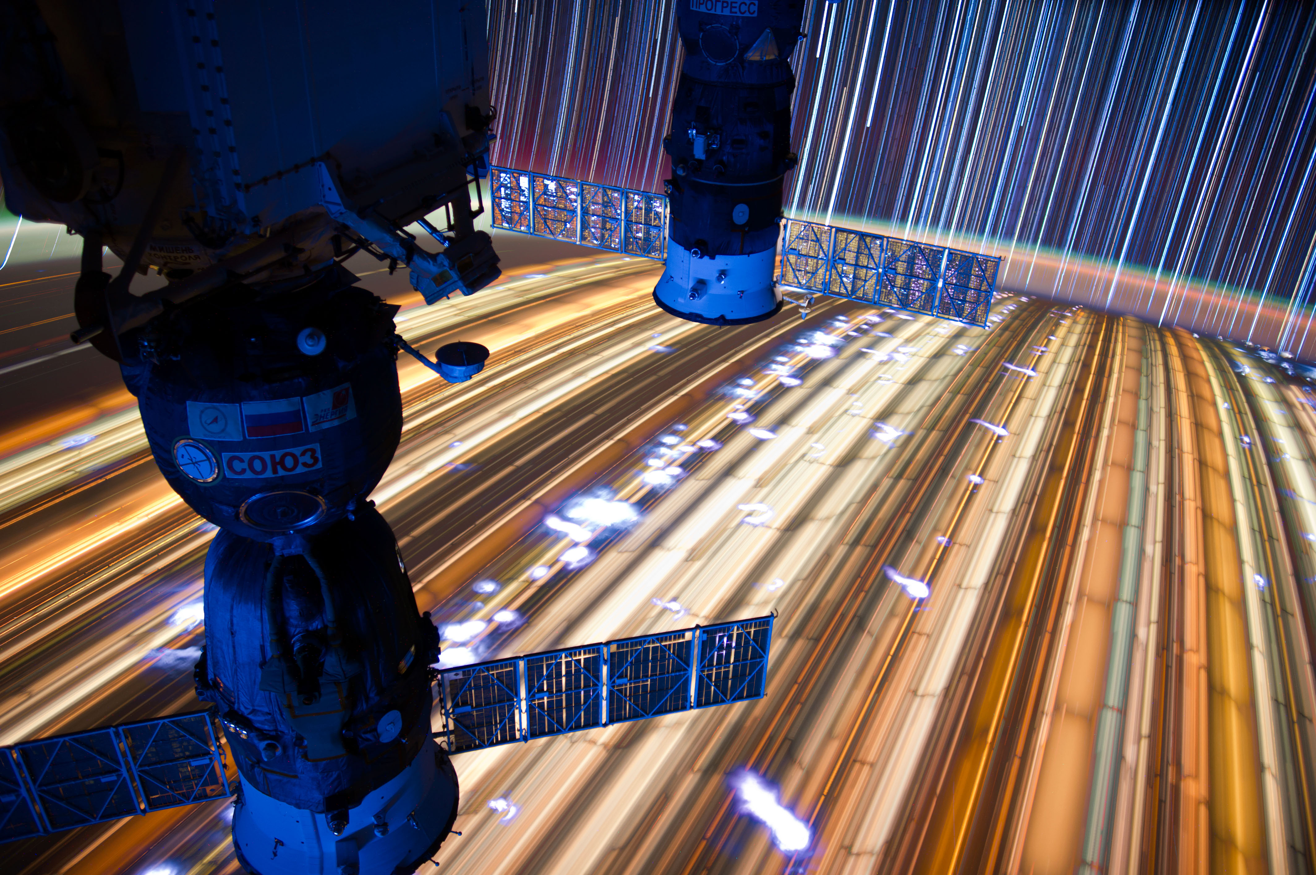 Star trail composite image created by International Space Station Expedition 31 crew member Don Pettit using images ISS031E065837 through ISS031E065937. Expedition 30 and Expedition 31 Flight Engineer Don Pettit provided information about photographic techniques used to achieve the images: "My star trail images are made by taking a time exposure of about 10 to 15 minutes. However, with modern digital cameras, 30 seconds is about the longest exposure possible, due to electronic detector noise effectively snowing out the image. To achieve the longer exposures I do what many amateur astronomers do. I take multiple 30-second exposures, then 'stack' them using imaging software, thus producing the longer exposure."